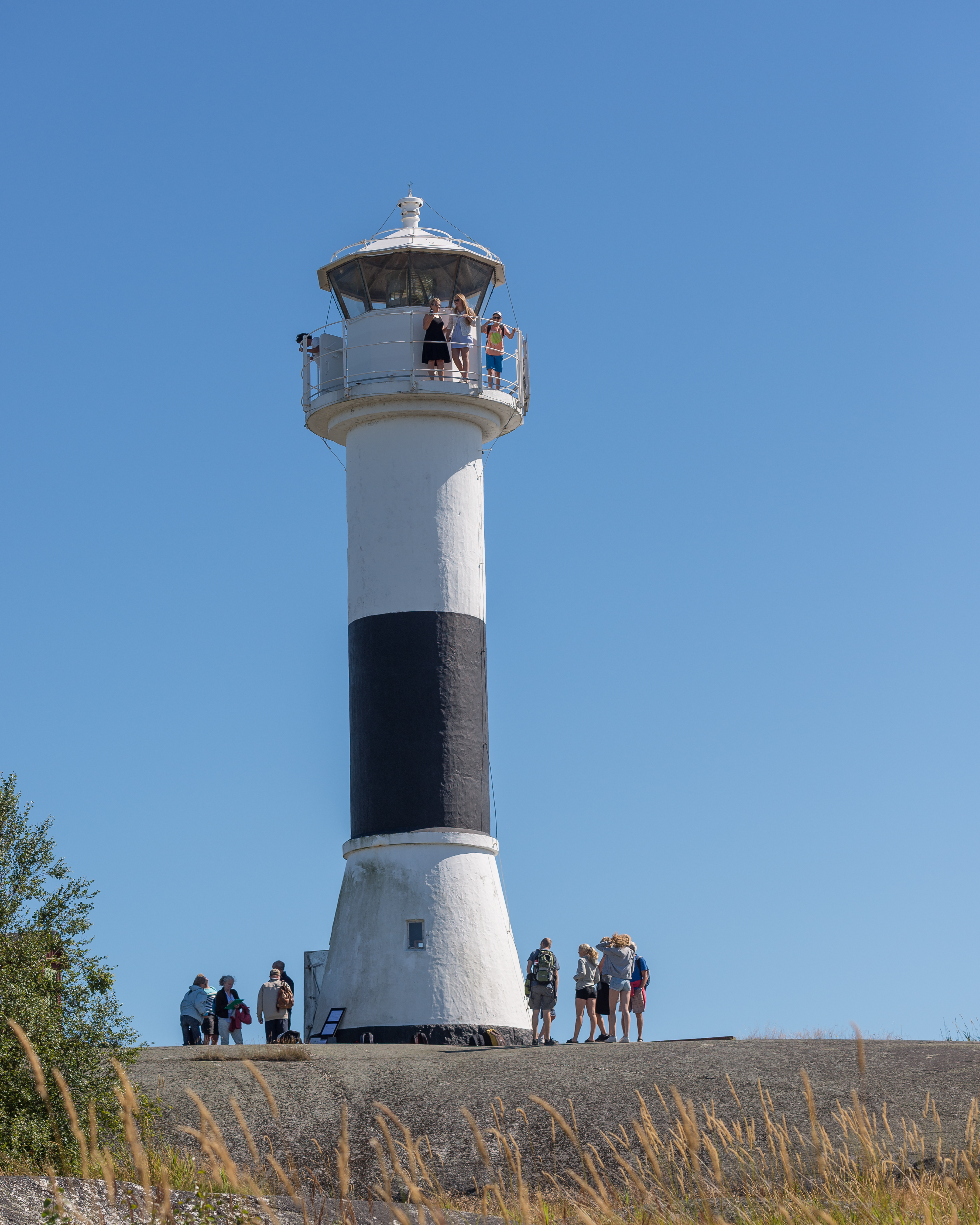 Huvudskär lighthouse. Huvudskär is a remote group of islands in the outer part of Stockholm archipelago.